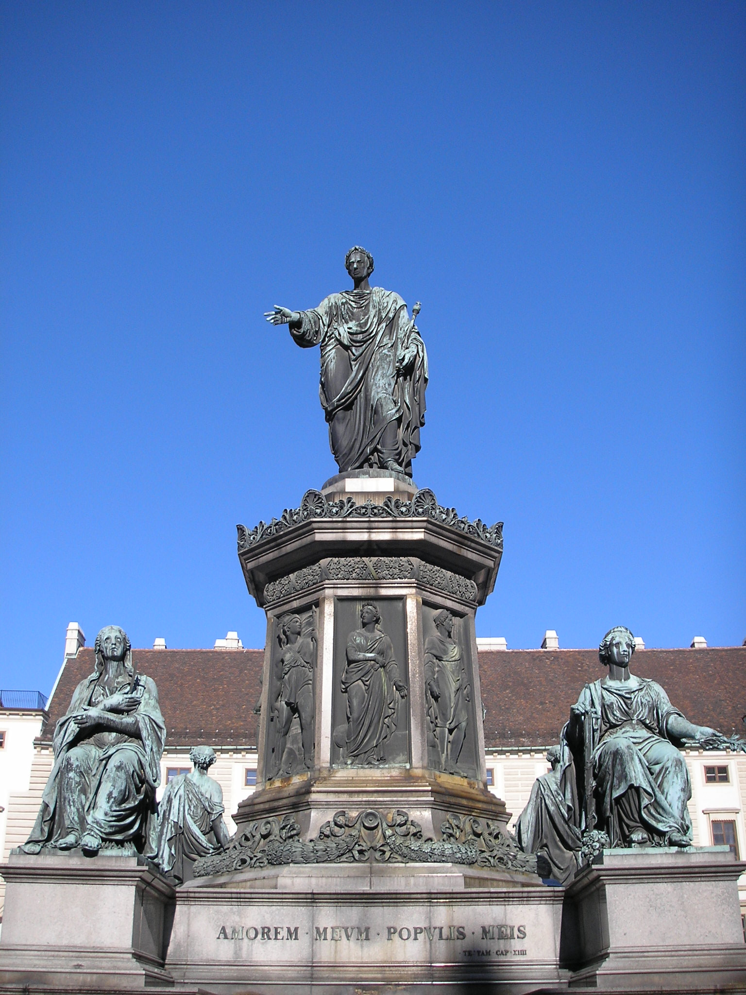 Monument to Emperor Franz I of Austria, in the Innerer Burghof in the Hofburg imperial palace in Vienna.